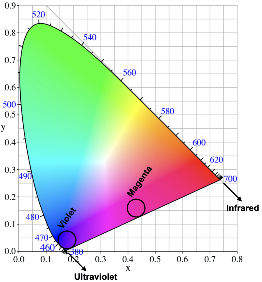 Violet vs Magenta using the w: CIE 1931 color space Based on File:CIExy1931.png